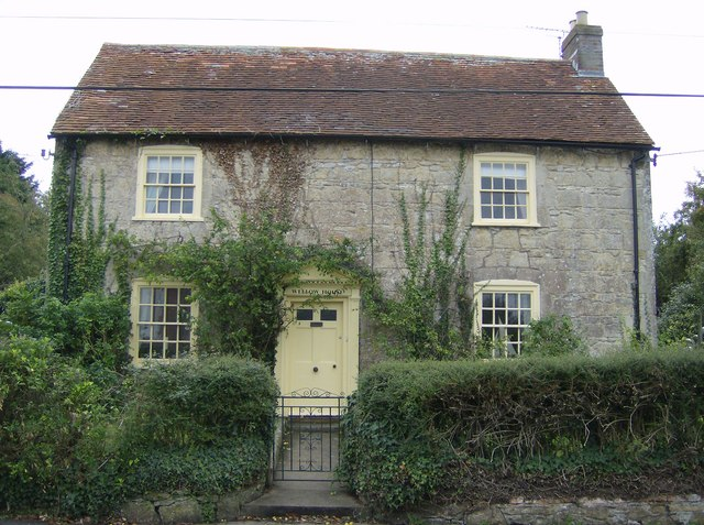 House in Wellow Original description: Wellow House A modest house for the squire of this modest village.